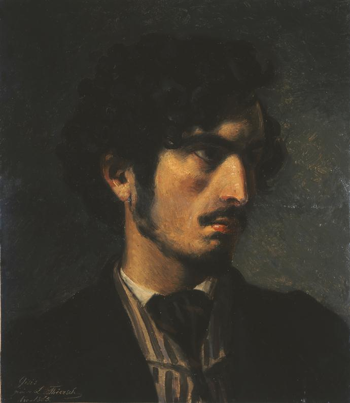 Portrait of Nicolaos Gyzis, 1865